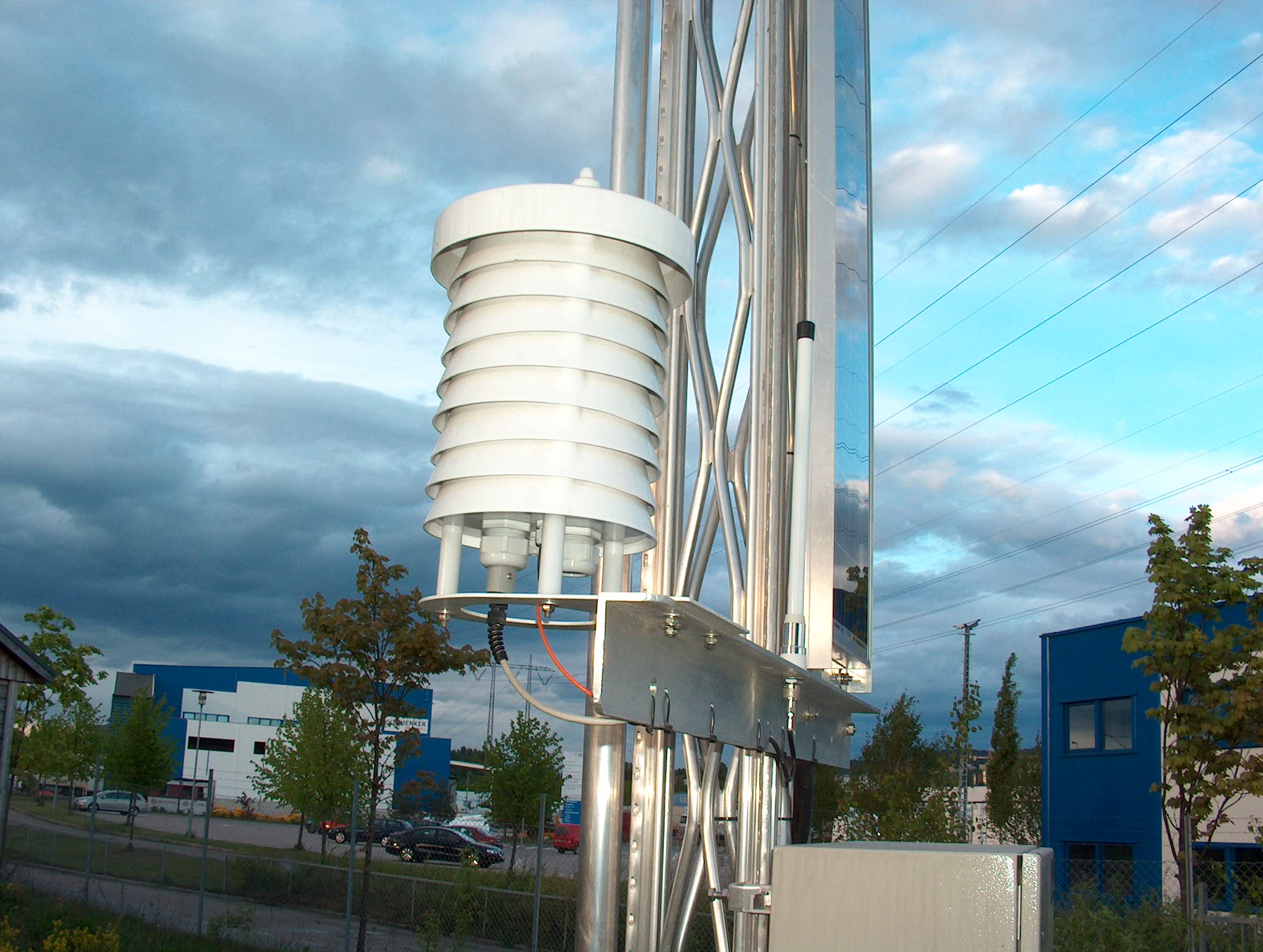 Met.no's AWS (Automatic Weather Station) at Alna in Oslo.